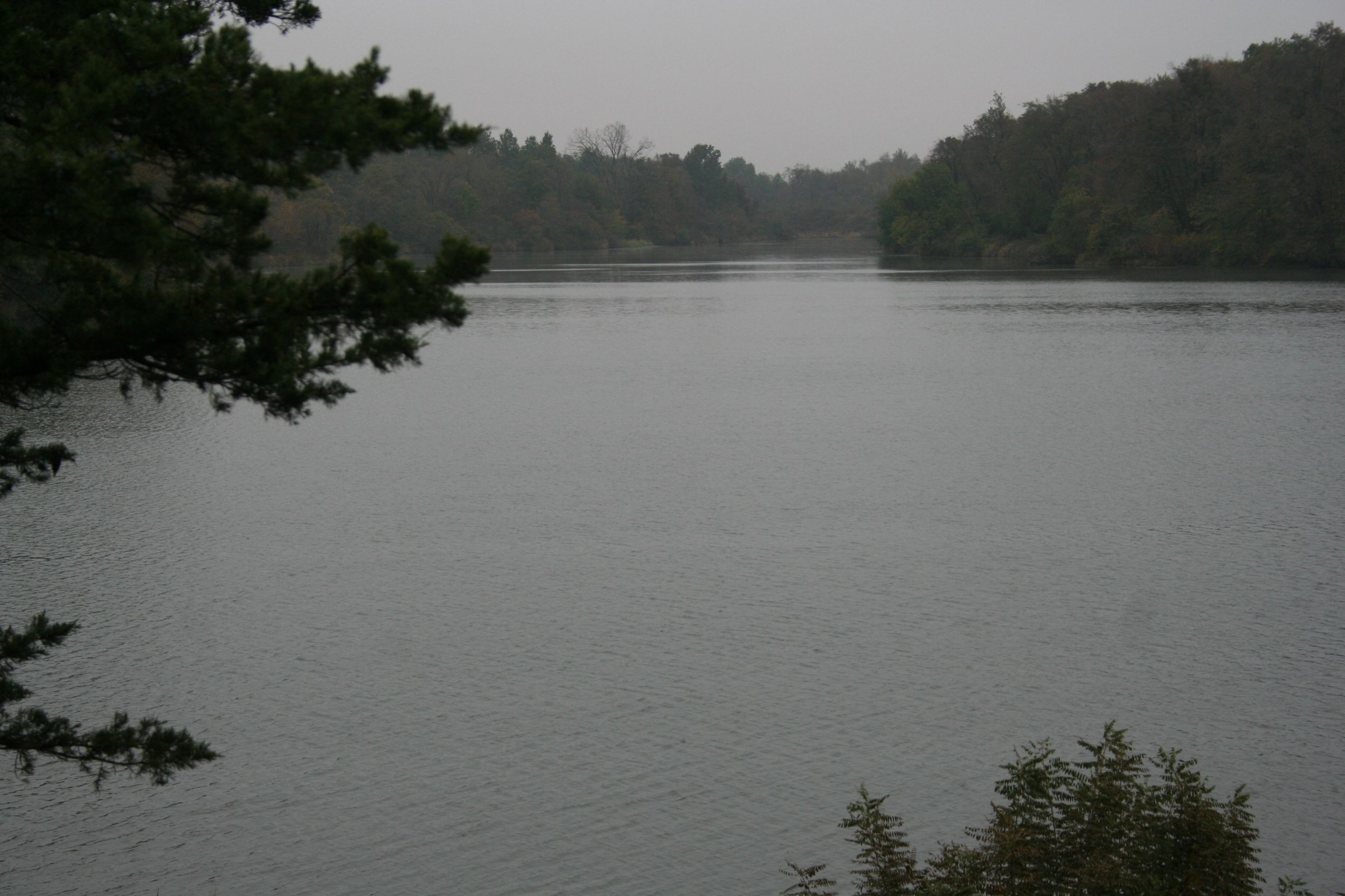 Autumn Dawn, Red Haw Lake, WAH DER WATER State Park, Iowa